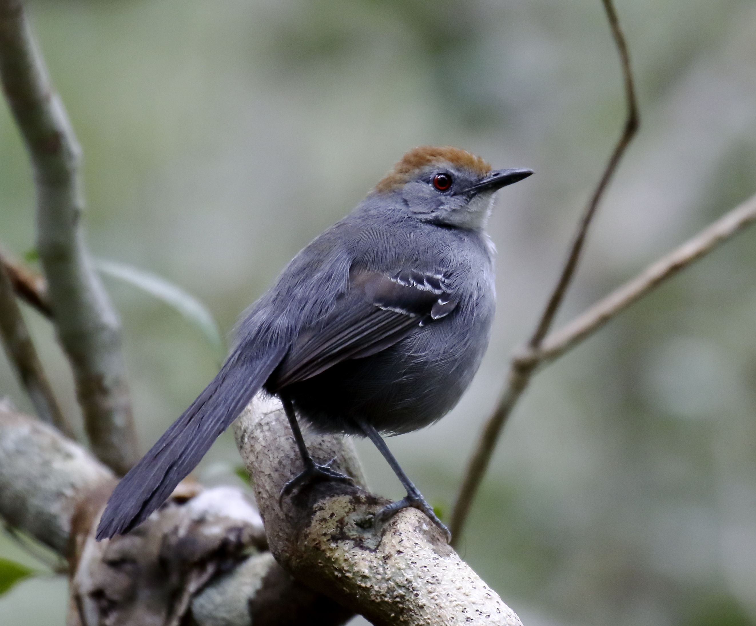 Slender antbird (female) at Boa Nova, Bahia, Brazil